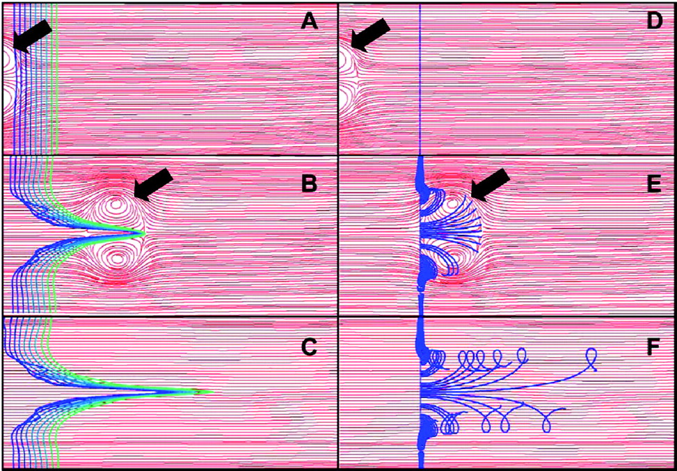 Measurements of Lagrangian drift induced by translating fluid vortices. Vortex is indicated by black arrow. (A) Vortex approaches several planar Lagrangian surfaces downstream of the vortex generator (several more planes further downstream not shown); t=0.07 s. (B,C) Fluid vortices interact with Lagrangian surfaces in a manner similar to that observed for the inviscid sphere solution. Initially planar surfaces are deformed to horn-like shapes; t=3.34 s and 13.3 s, respectively. (D–F) Individual Lagrangian particle paths corresponding to t=0.07 s, 3.34 s and 13.3 s, respectively.